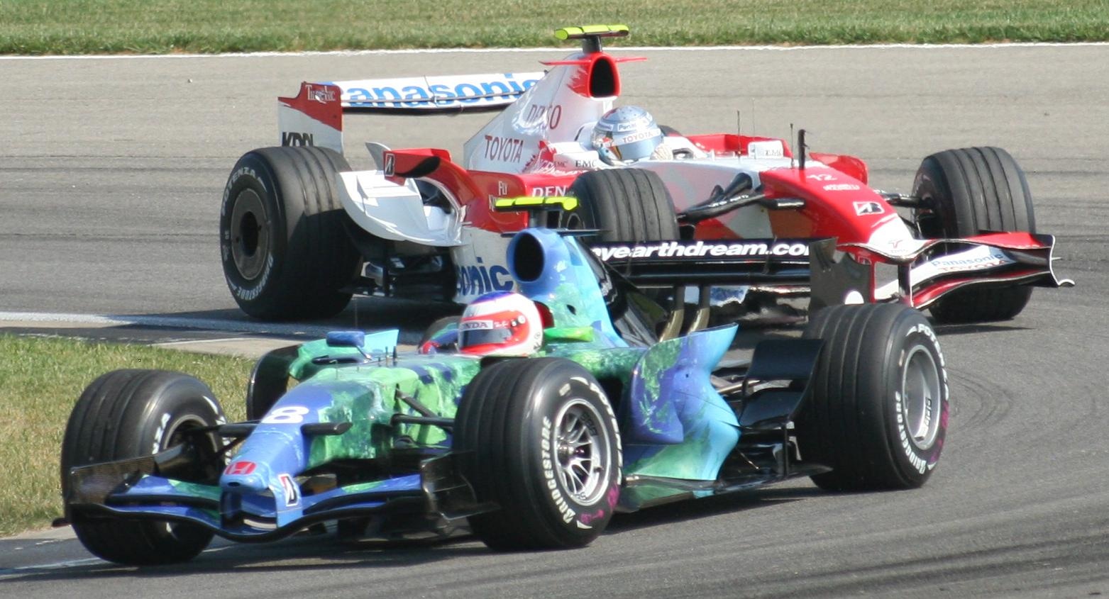 Rubens Barrichello (Honda F1) leads Jarno Trulli (Toyota F1) at the 2007 United States Grand Prix.